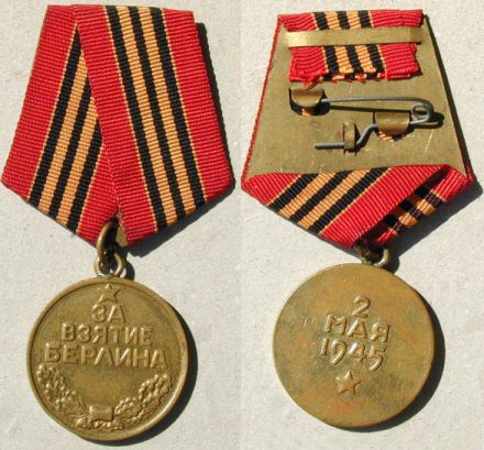 Soviet Medal for capturing Berlin (Медаль за взяте Берлина)